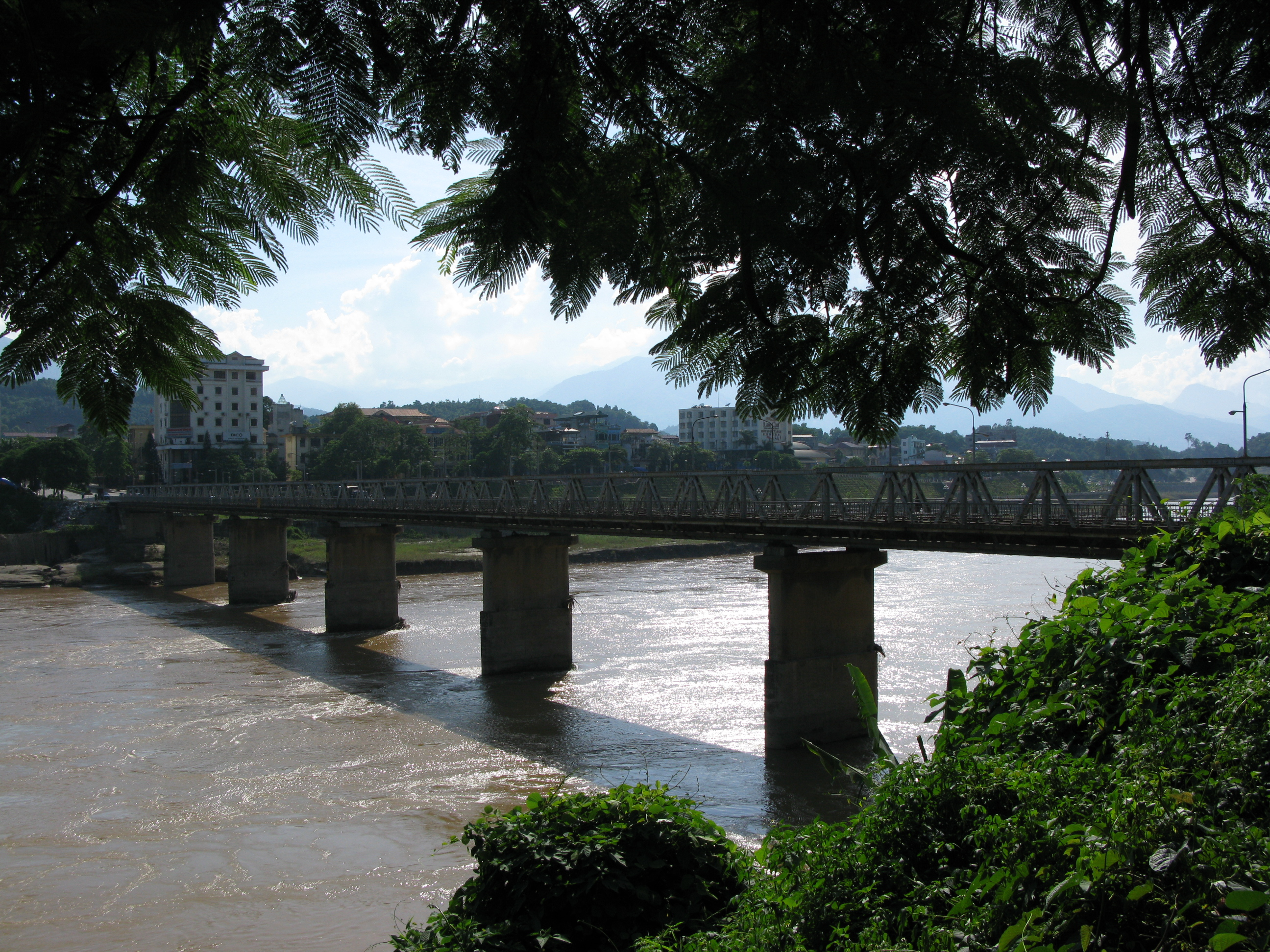 Coc Leu Bridge, Lao Cai City, Vietnam.